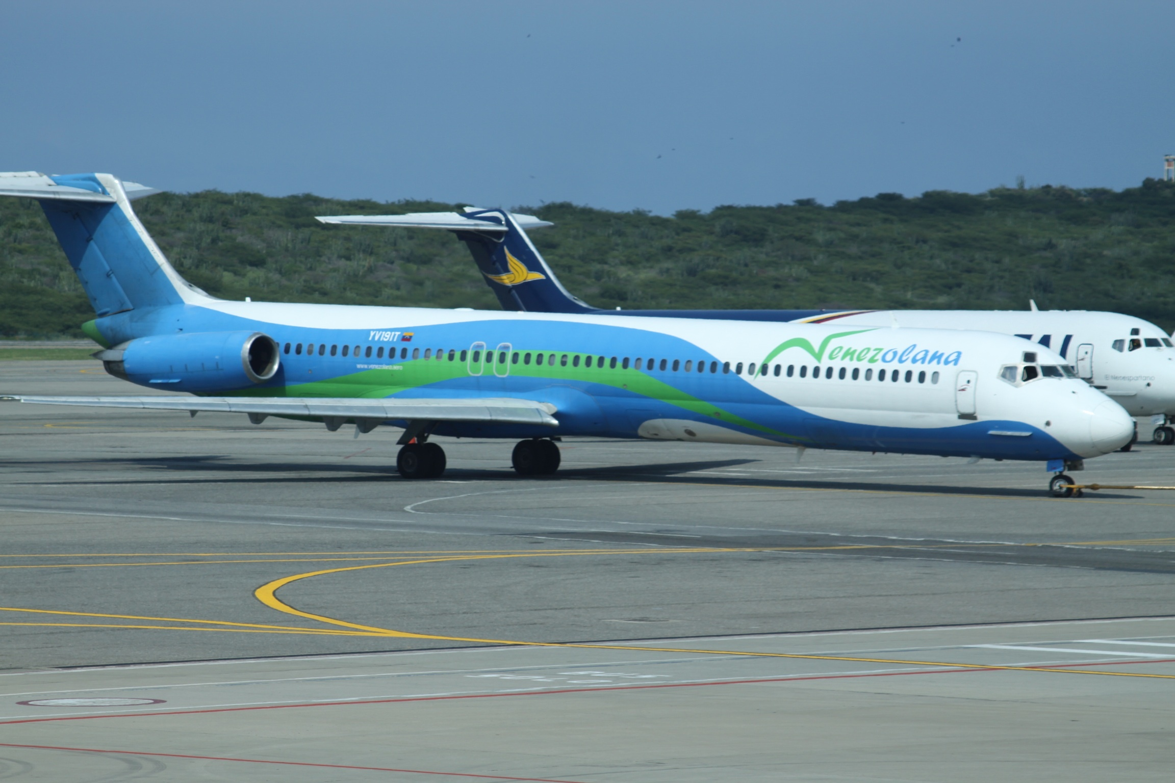 At Caracas Simón Bolívar International